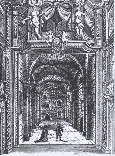 Inside the Dorset Garden Theatre, scenes for Elkanah Settle's The Empress of Morocco. Captioned As { }